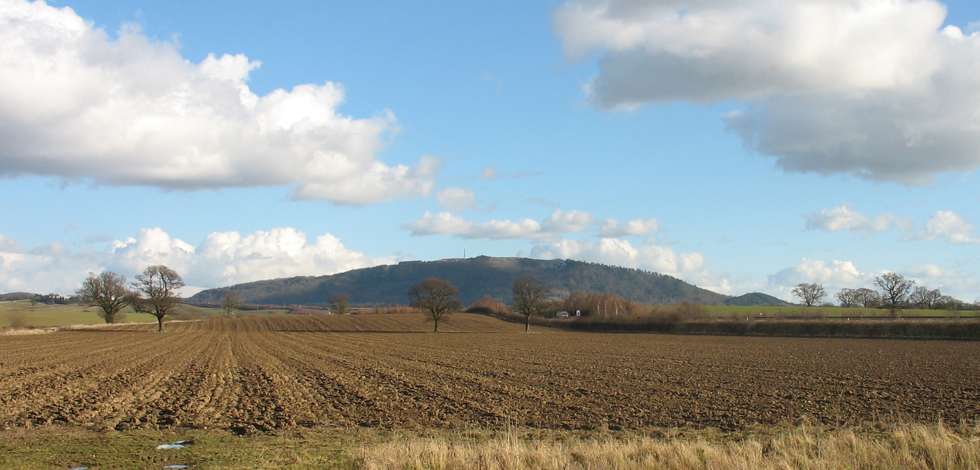 Photo taken by Chris Bayley with Canon PowerShot A610 A view of the Wrekin, Shropshire near the M54 motorway.